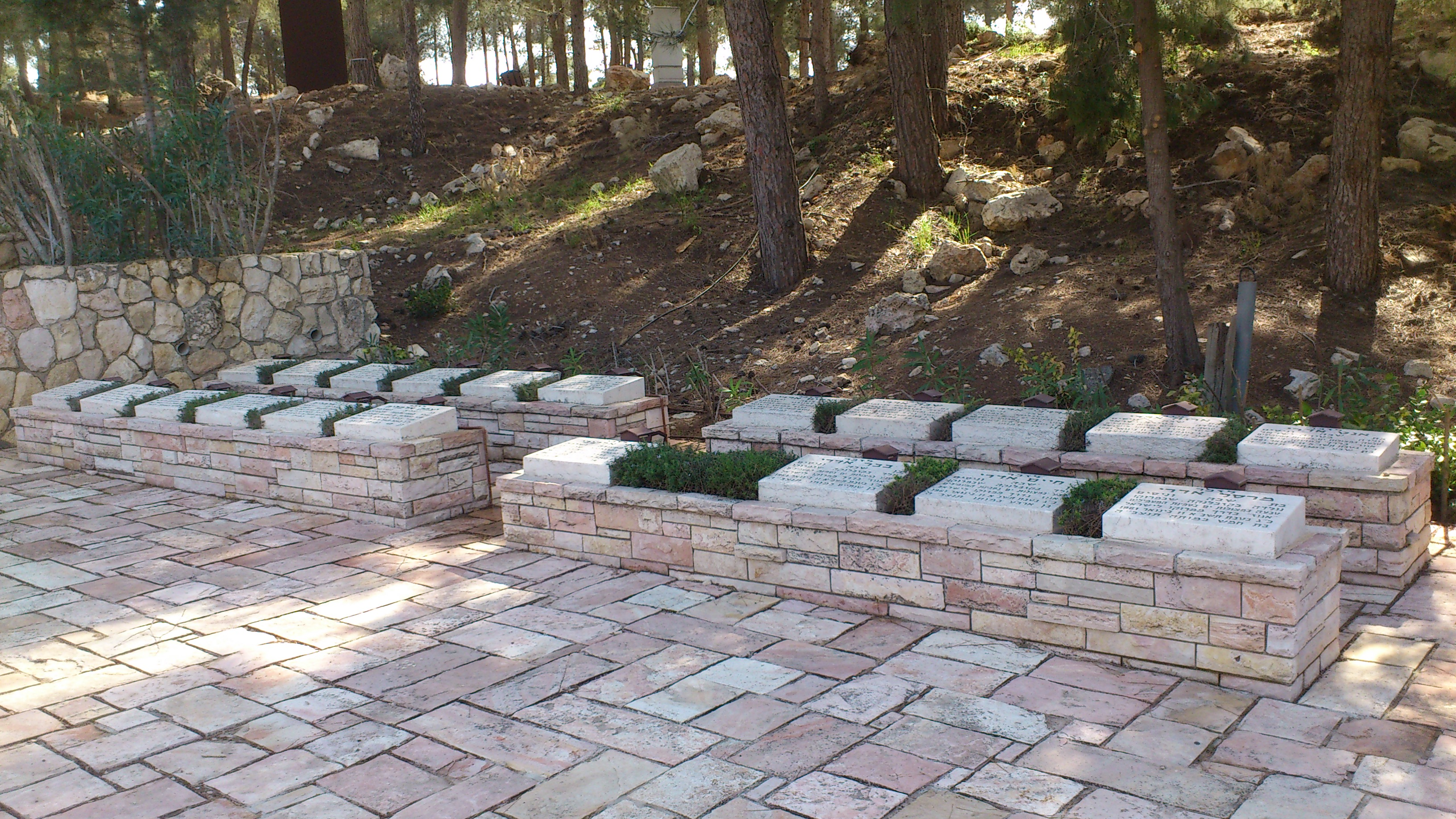 Common Grave for the illegal immigrants aboard Egoz